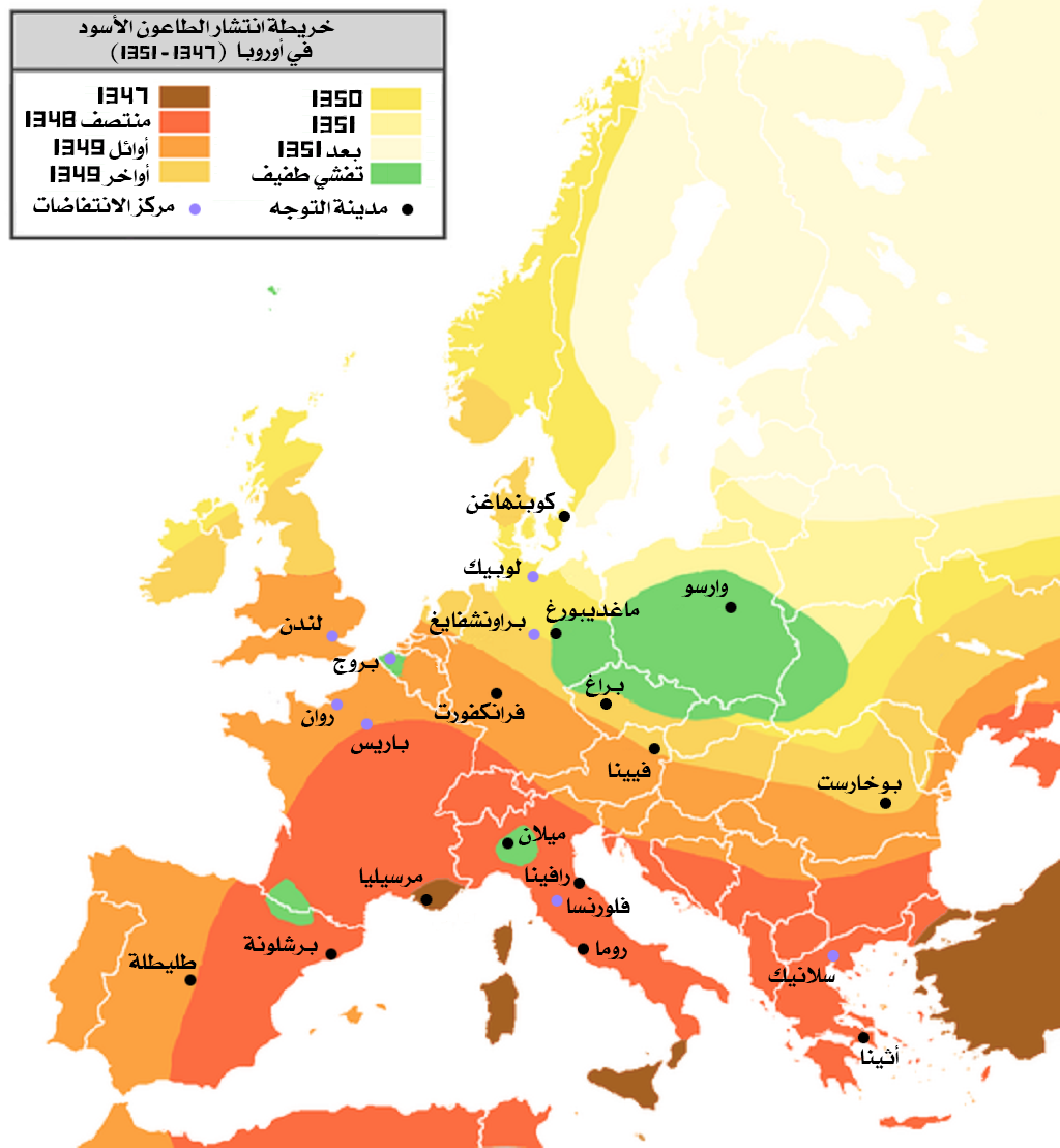 Bubonic Plague Map – with English text Spreading of the Bubonic Plague in Europe between 1347 and 1351 Note: The borders on the map illustrate present day borders, not those of the late 1340s!